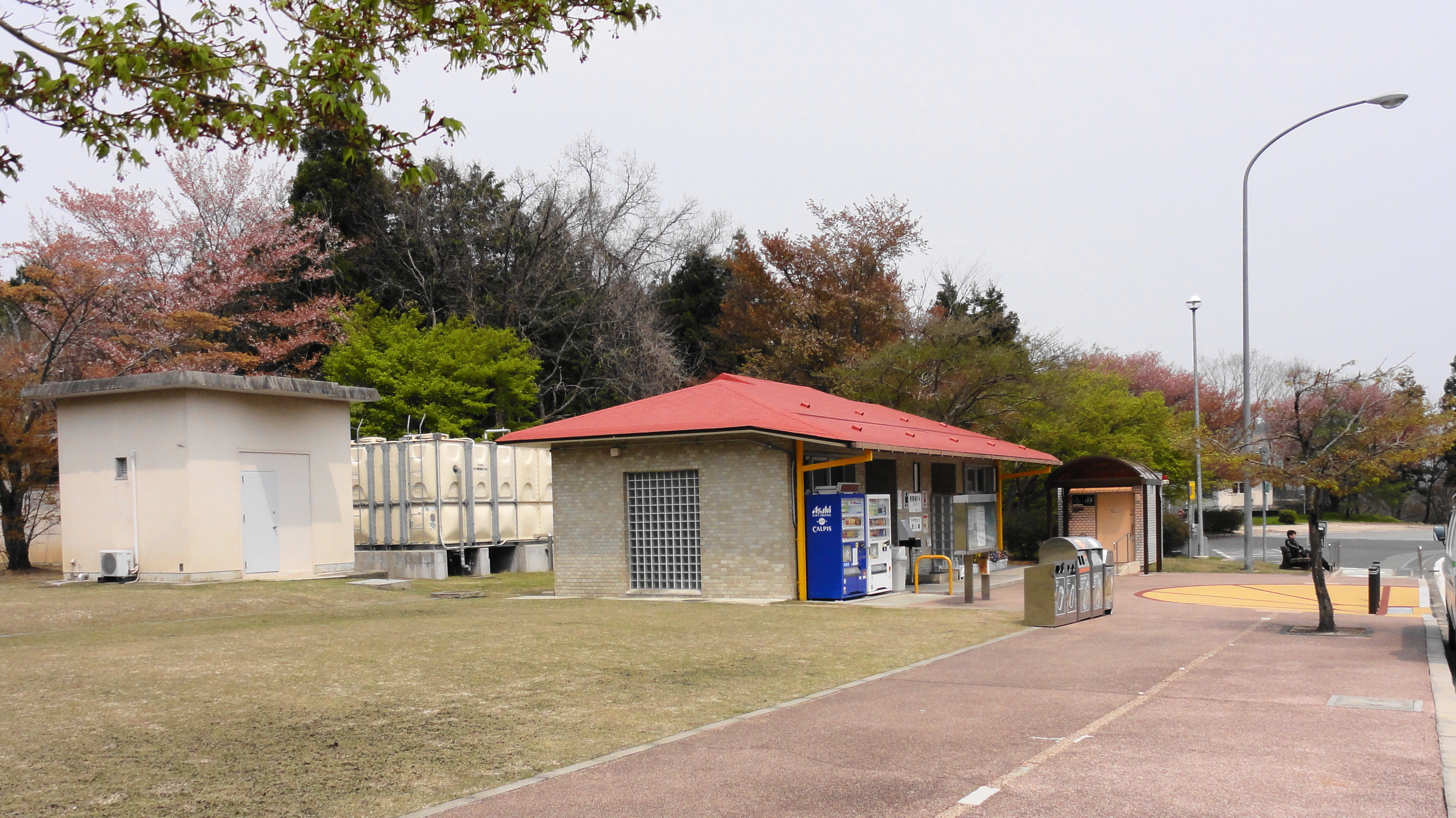 Taisyakukyo Parking Area,Hiroshima prefecture,Japan